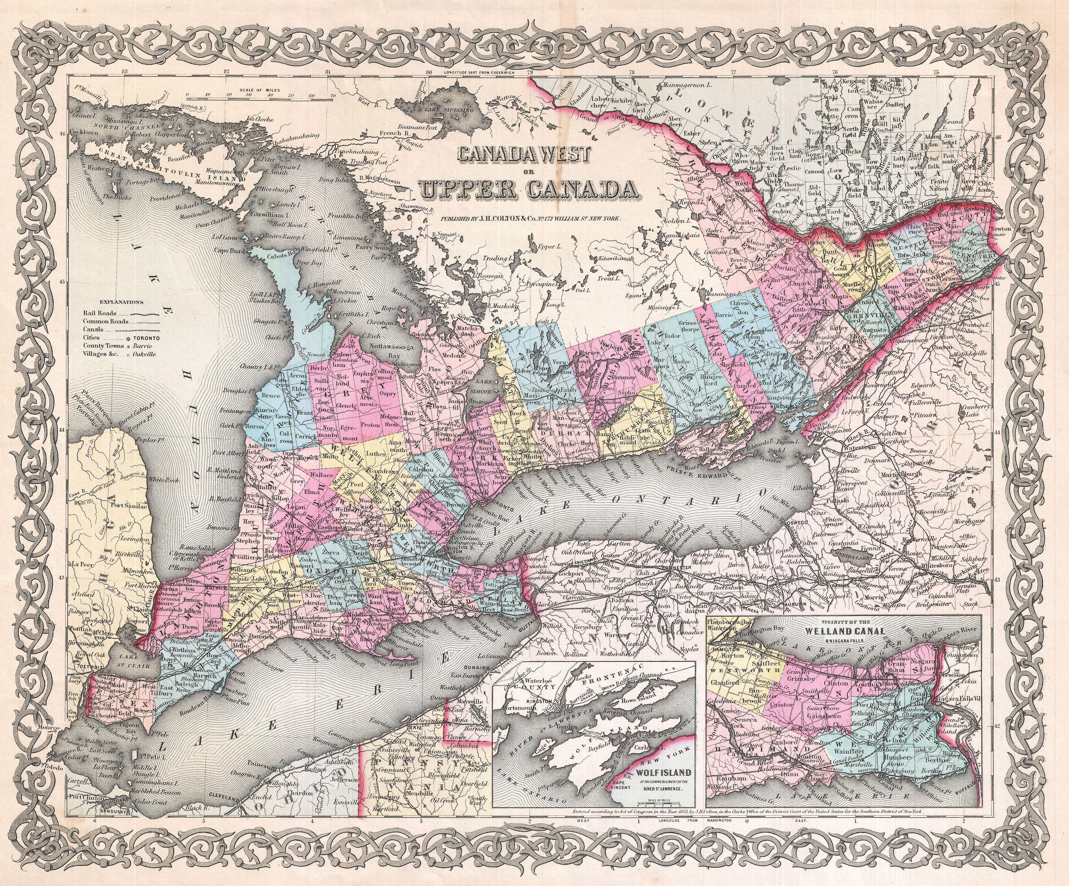 An excellent first edition example of Colton's rare 1855 map of Ontario. Covers what at the time was called Upper or West Canada from Michigan to Montreal. Includes Lake Erie, Lake Ontario, and part of Lake Huron. Two insets in the lower right quadrant detail Wolf Island and the Welland Canal. Throughout the map Colton identifies various cities, towns, forts, rivers, rapids, fords, and an assortment of additional topographical details. Map is hand colored in pink, green, yellow and blue pastels to define national and regional boundaries. Surrounded by Colton's typical spiral motif border. Dated and copyrighted to J. H. Colton, 1855. Published as page no. 6 in volume 1 of the first edition of George Washington Colton's 1855 Atlas of the World .